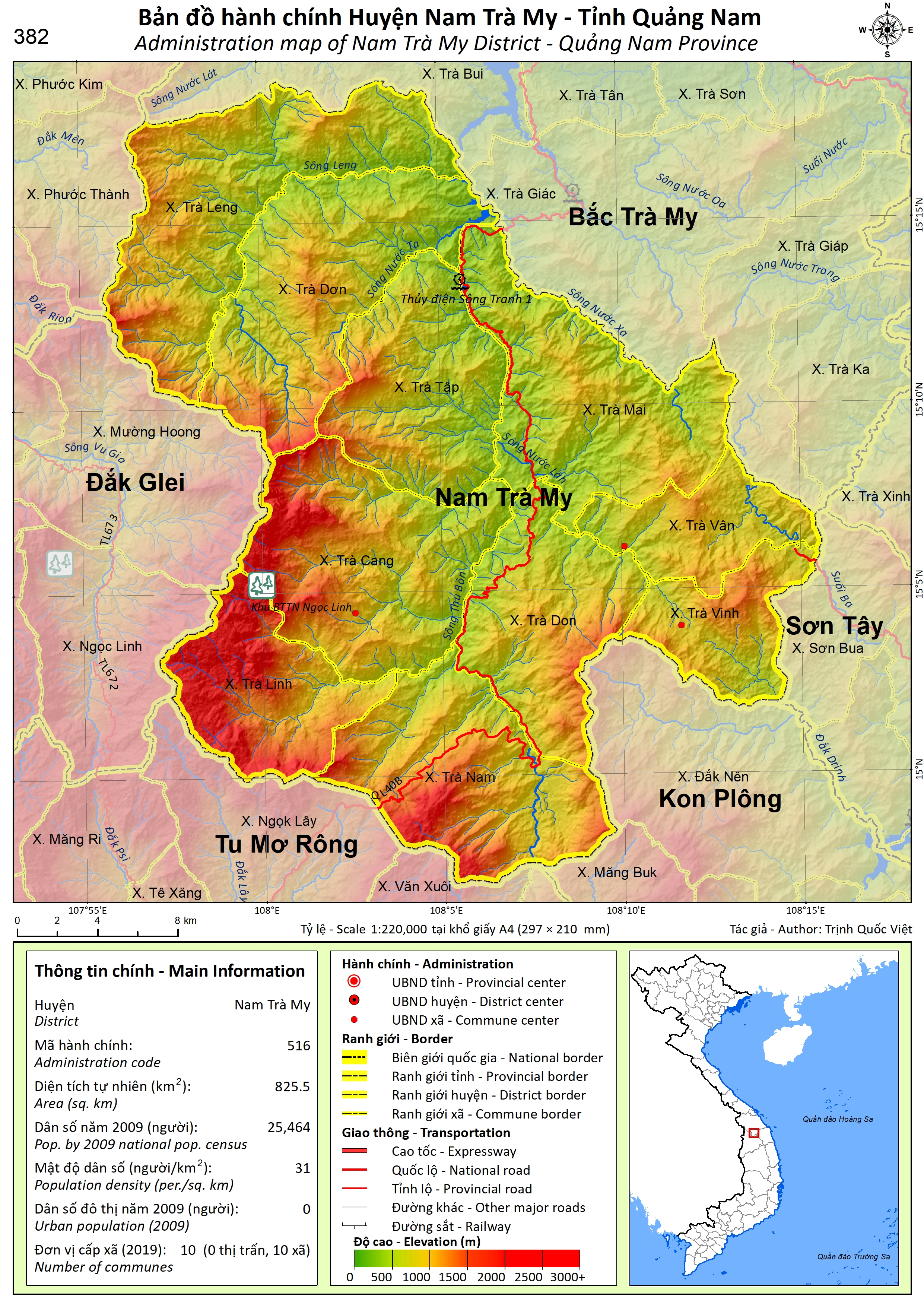 Administration map of Nam Tra My District